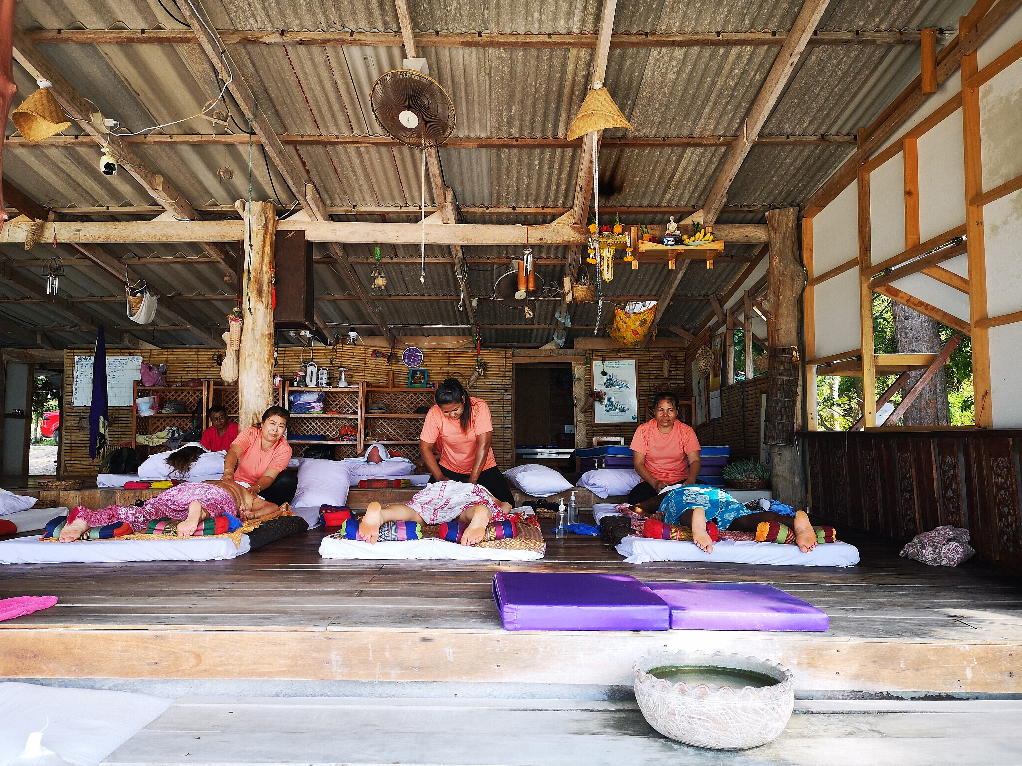 Traditional Thai massage